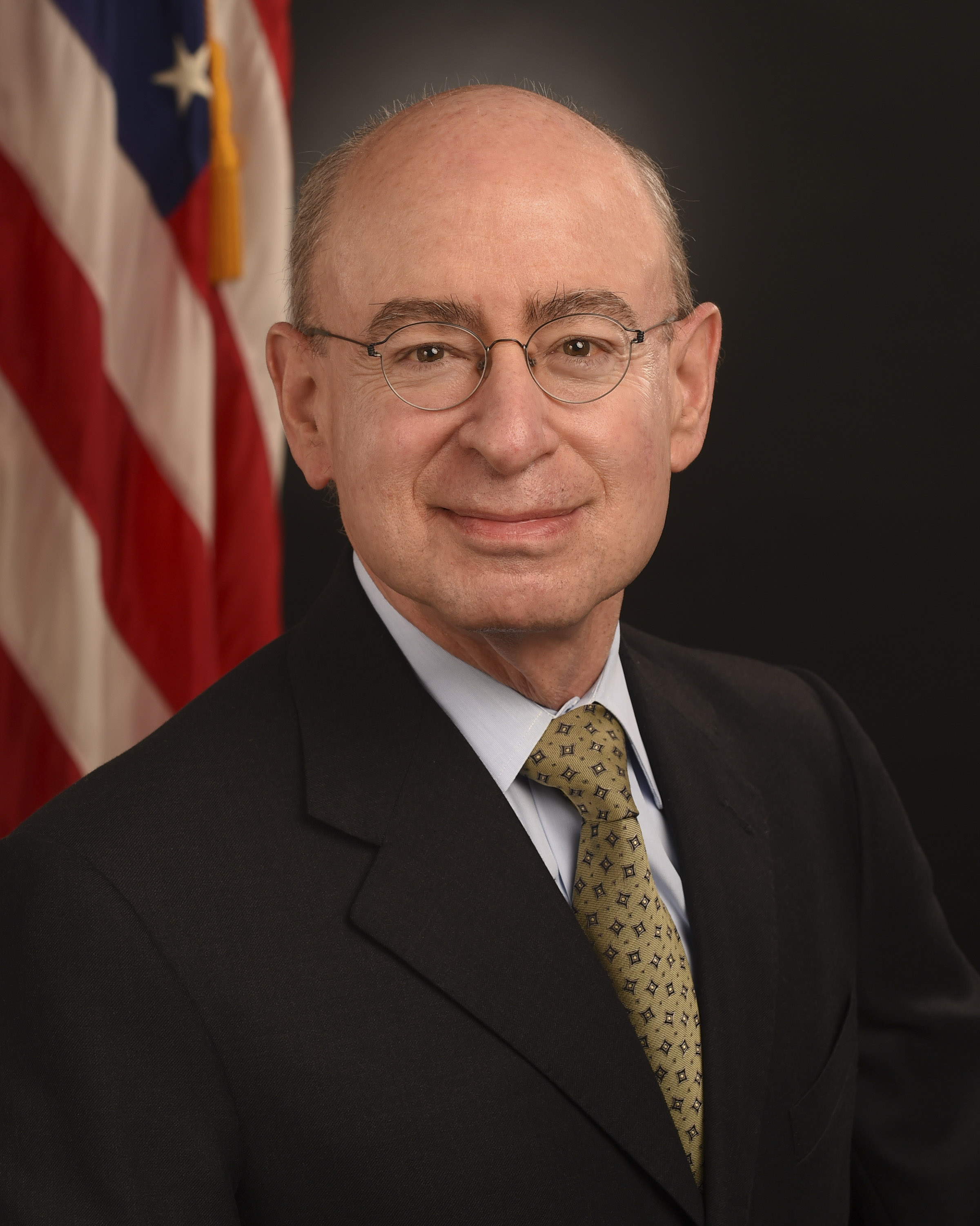 Daniel R. Levinson official portrait